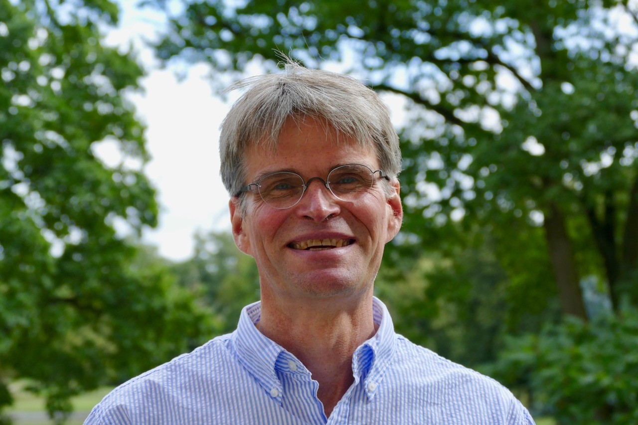 Portrait of Kai Nagel (2017)